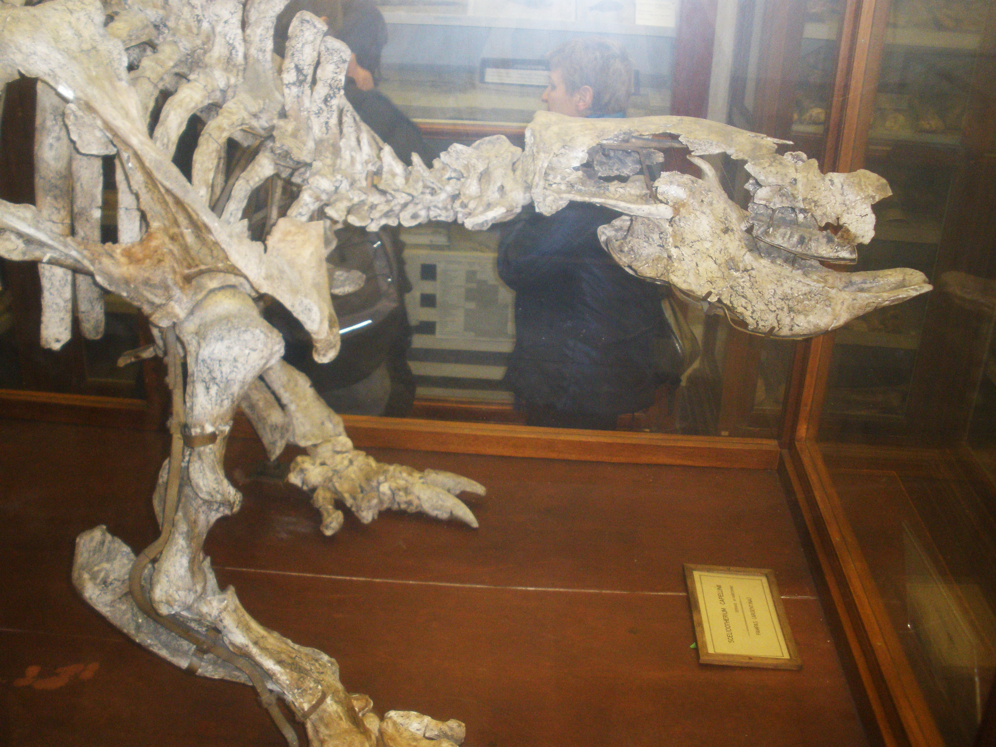 Fossil of Scelidodon tarjiaensis, an extinct xenarthran